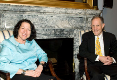 Senator Ted Kaufman of Delaware with Supreme Court nominee Sonia Sotomayor.